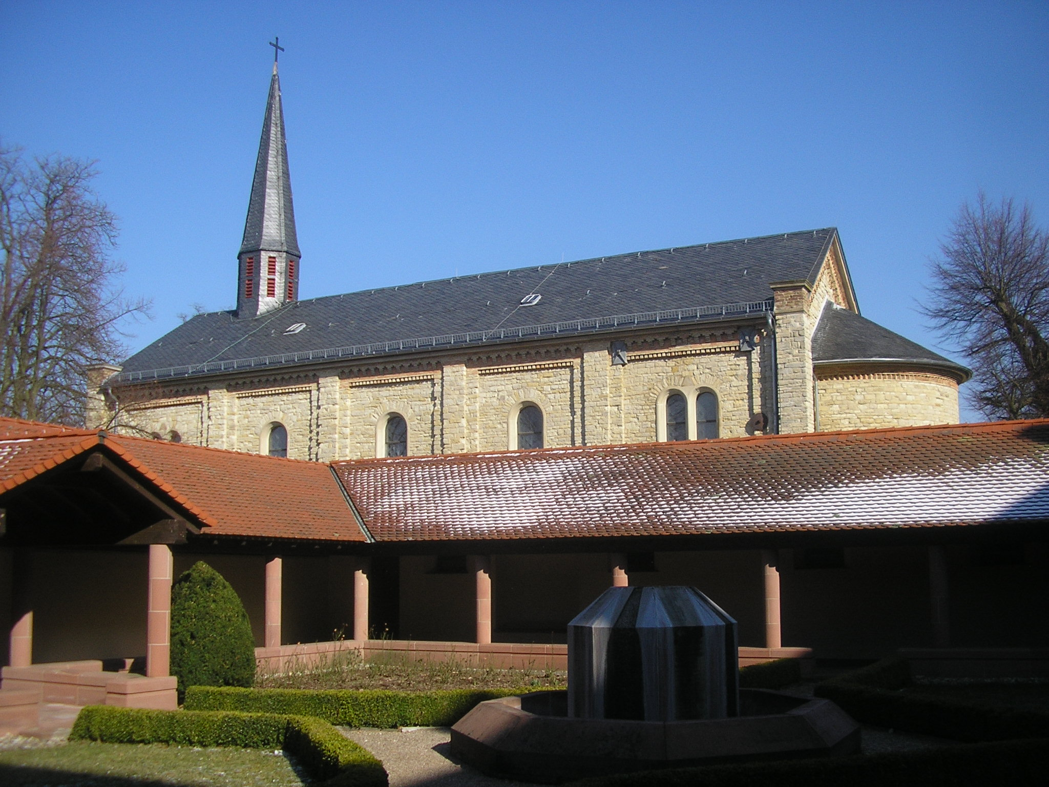 Church and cloister of the priorate Jakobsberg, Germany